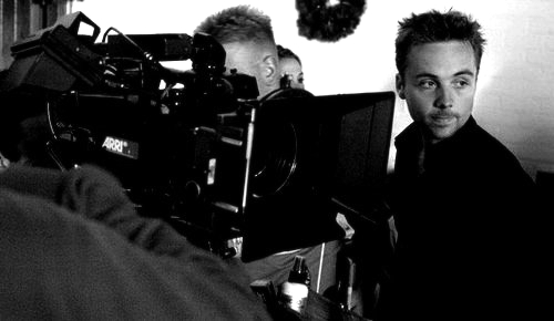 Director Gavin Heffernan on set in Los Angeles, taken by Wayne Warner and released into the public domain.